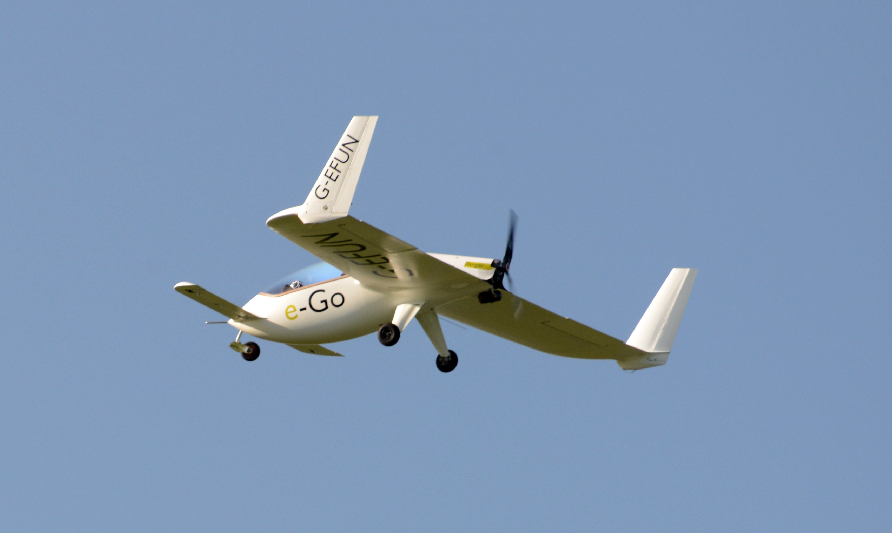 Fourth flight of the e-Go at Tibenham 30 October 2013